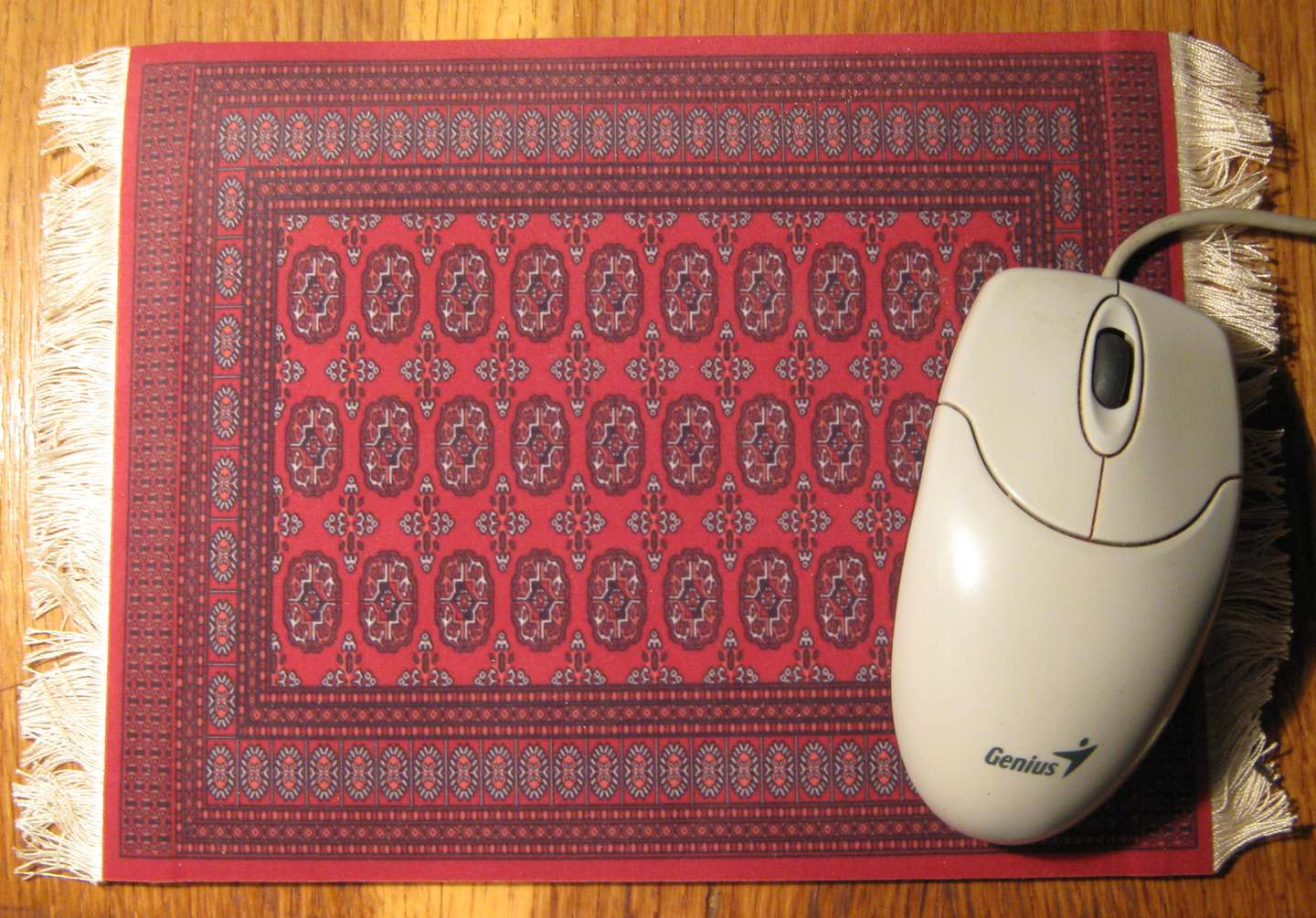 Mousepad designed as a Turkmenian carpet.